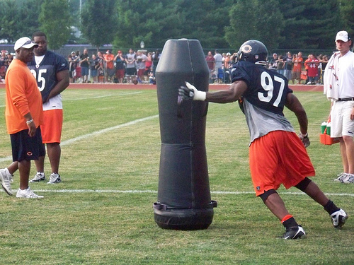 Mark Anderson works on practice drills with the Chicago Bears.